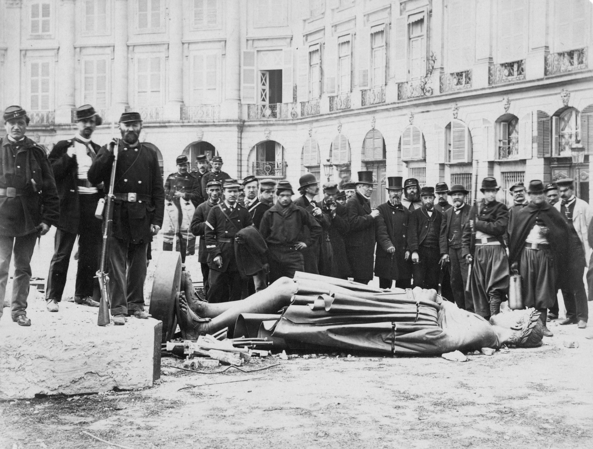 Destruction of the Vendôme Colonne during the Paris Commune.